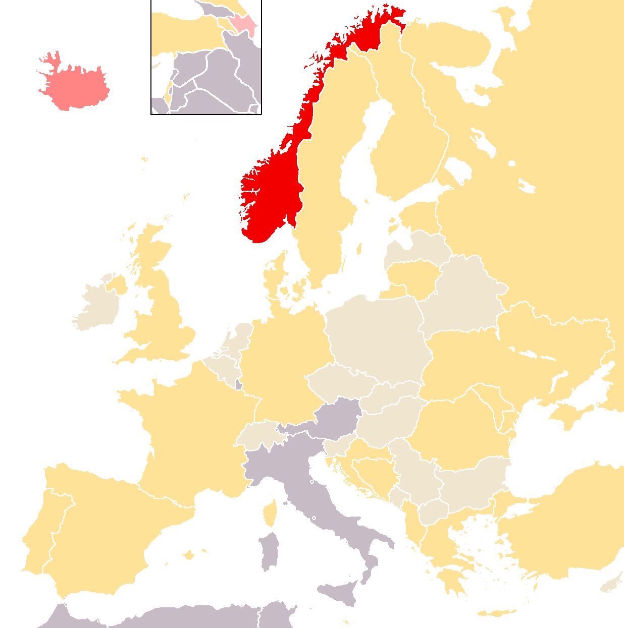 Map of Eurovision 2009